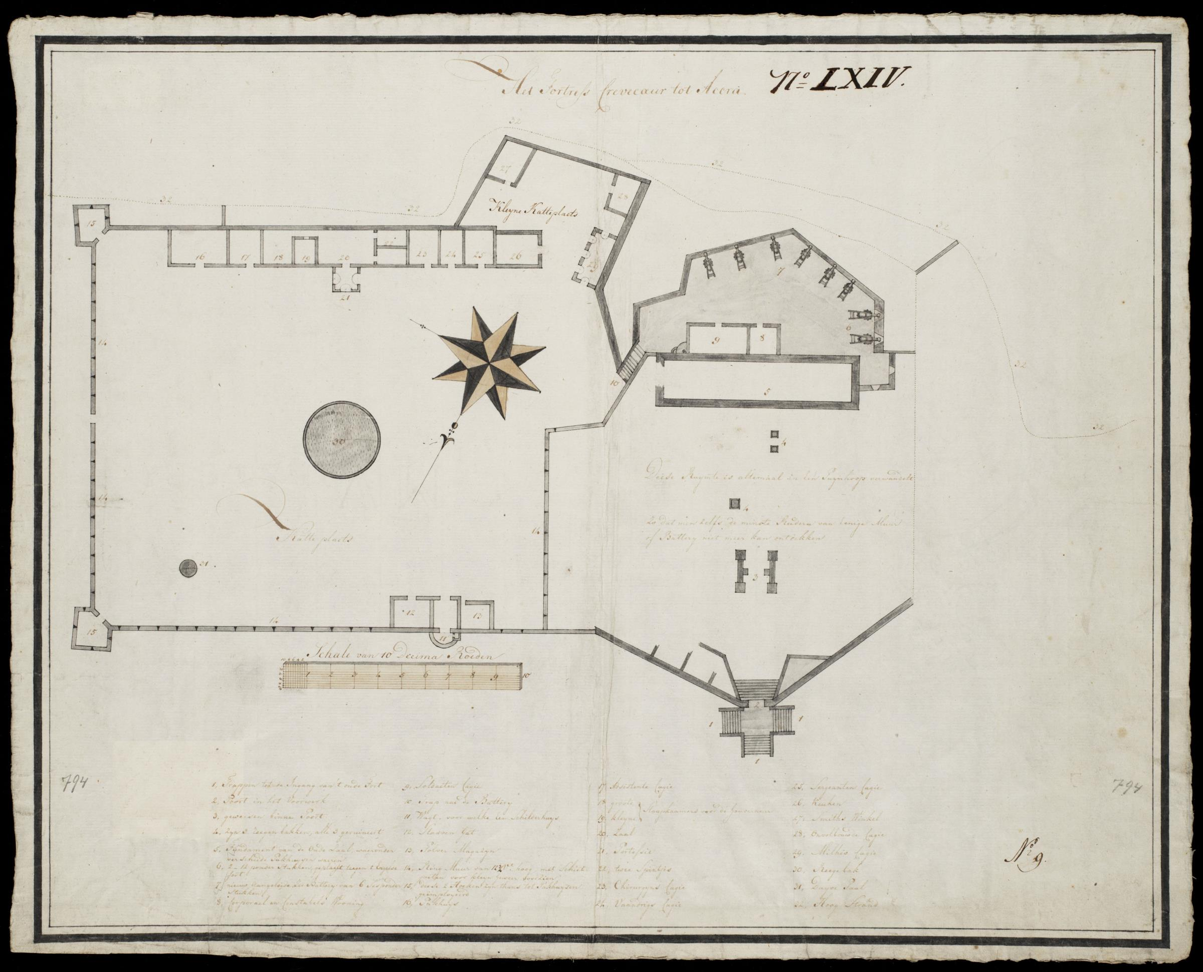 Floor plan of Fort Crevecoeur at Accra. Title in the Leupe catalogue (NA): Het Fortress Crevecoeur tot Accra. Het Fortress Crevecoeur te Accra. Notes on reverse: No. 35 Fort Crevecoer. Register 8, Deel 1, Folio 35, Portefeuille .. [inscribed on a blue label] / 486 [stamped in bold figures on a small label]. Key: 1-32. Bottom right: No: 9. Bottom left and bottom right: 794 [in pencil]. Top right: No: LXIV.